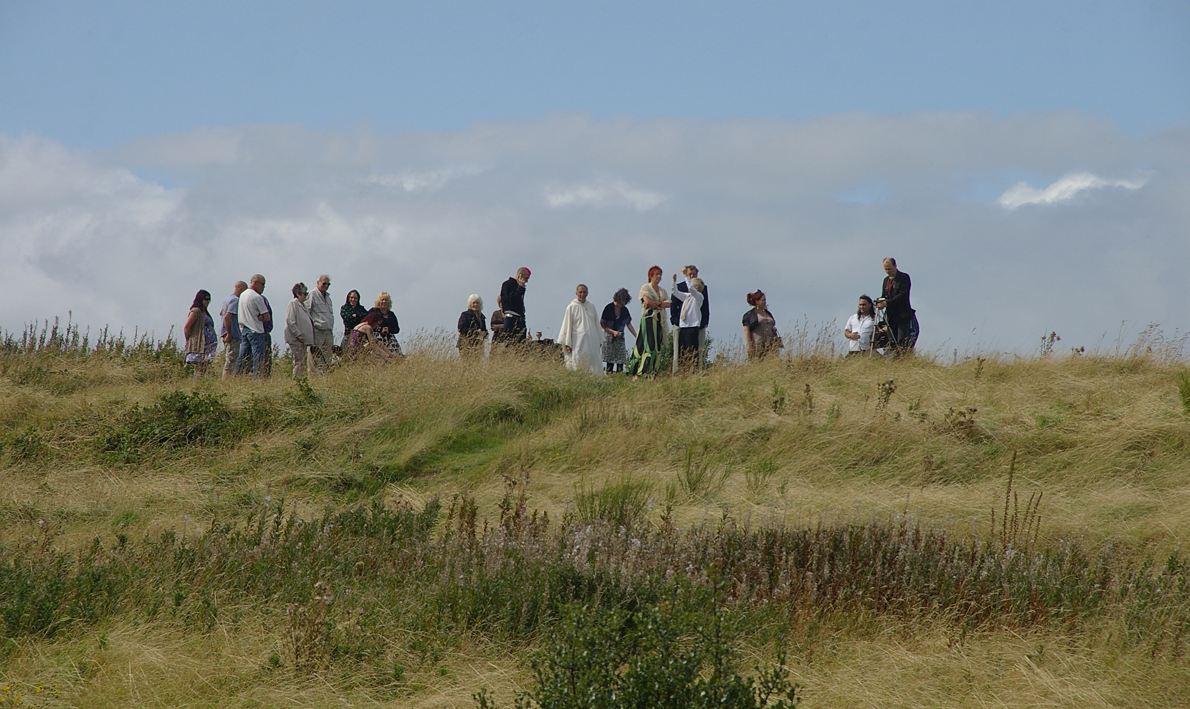 A pagan wedding at Bury Ditches hill fort.